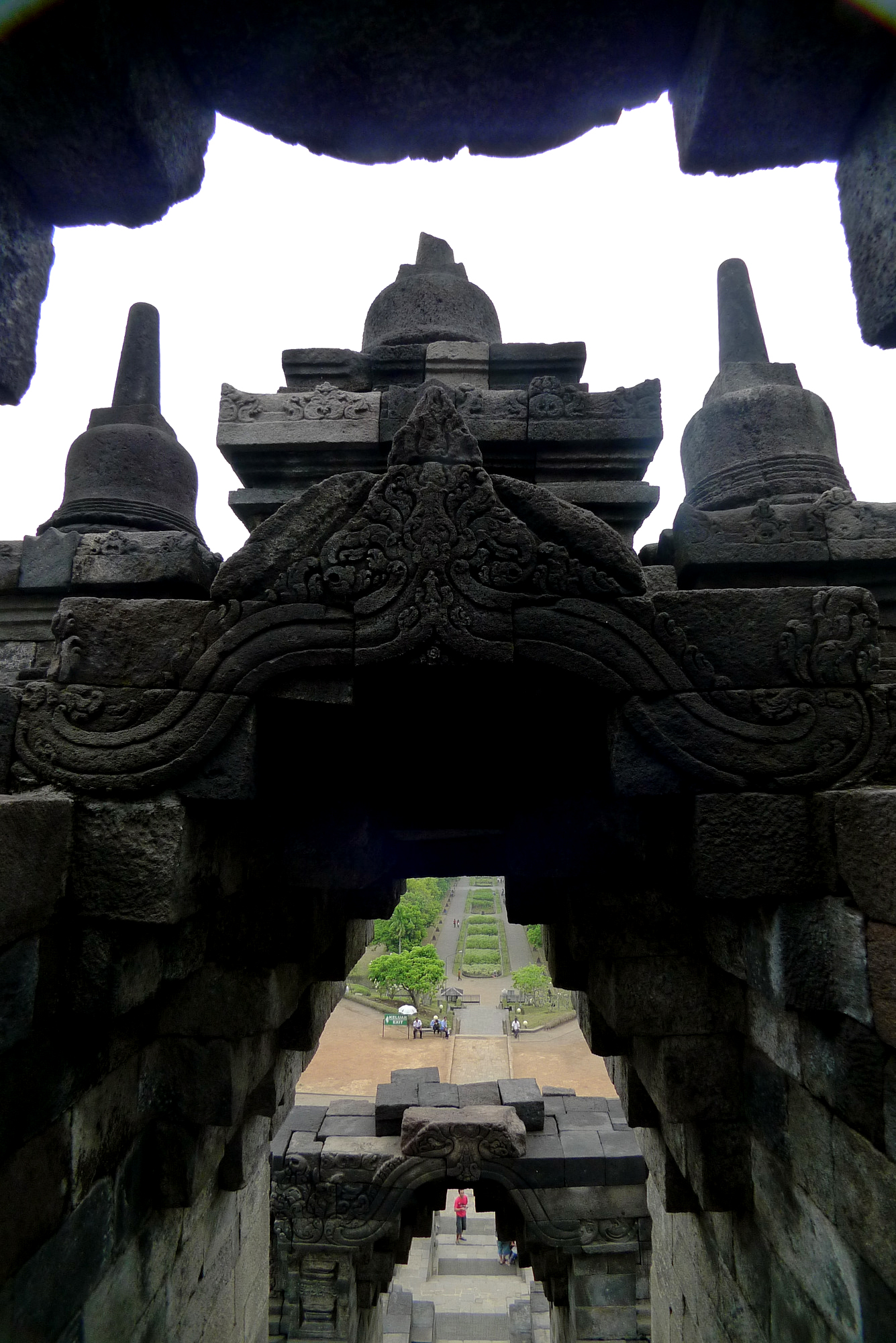 Doorways of Borobudur